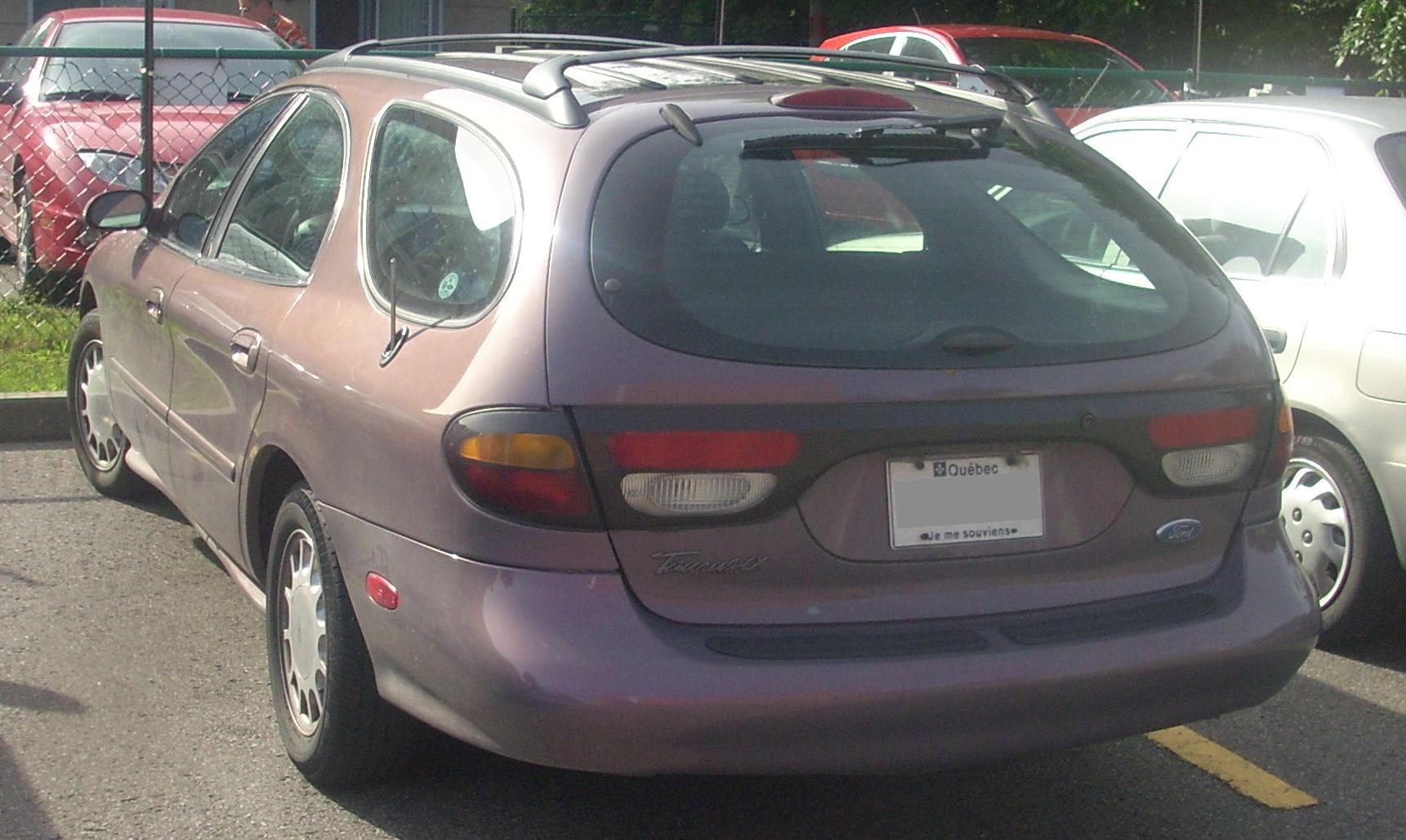 1996-1997 Ford Taurus photographed in Montreal, Quebec, Canada.